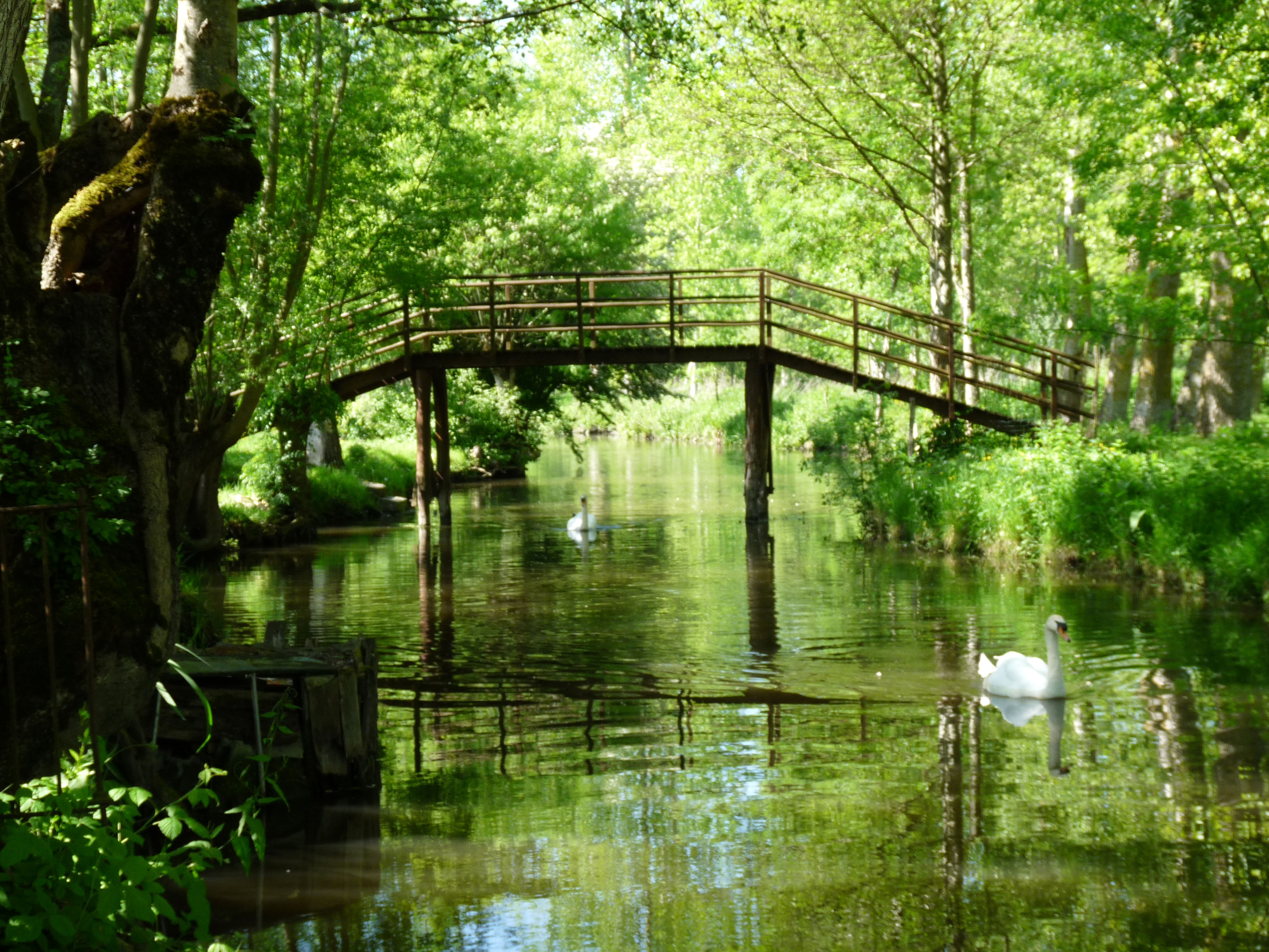 A footbridge over a canal in the "wet marsh" area of the Marais Poitevin, in Le Vanneau, Deux-Sèvres, France.